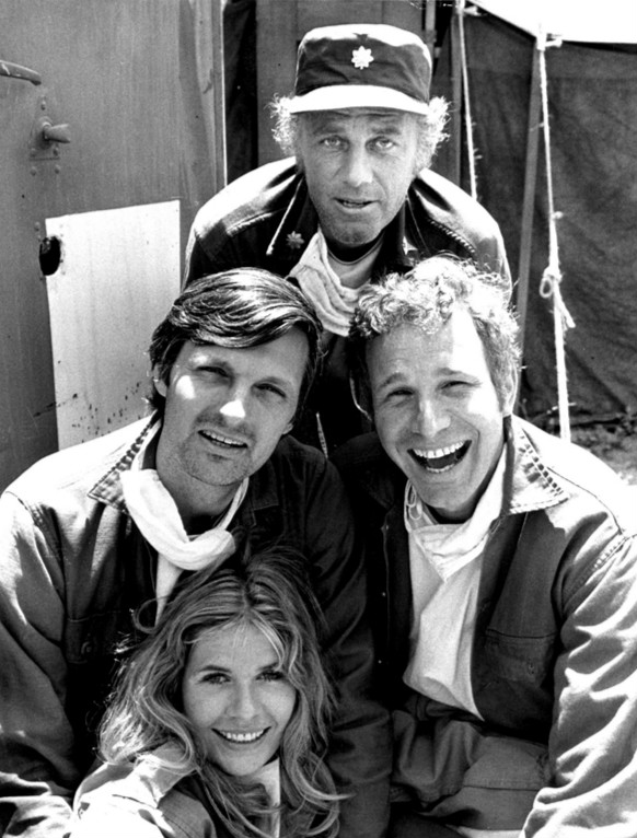 Publicity photo of some M*A*S*H cast members for show premiere in 1972-Loretta Swit, Alan Alda, McLean Stevenson and Wayne Rogers.